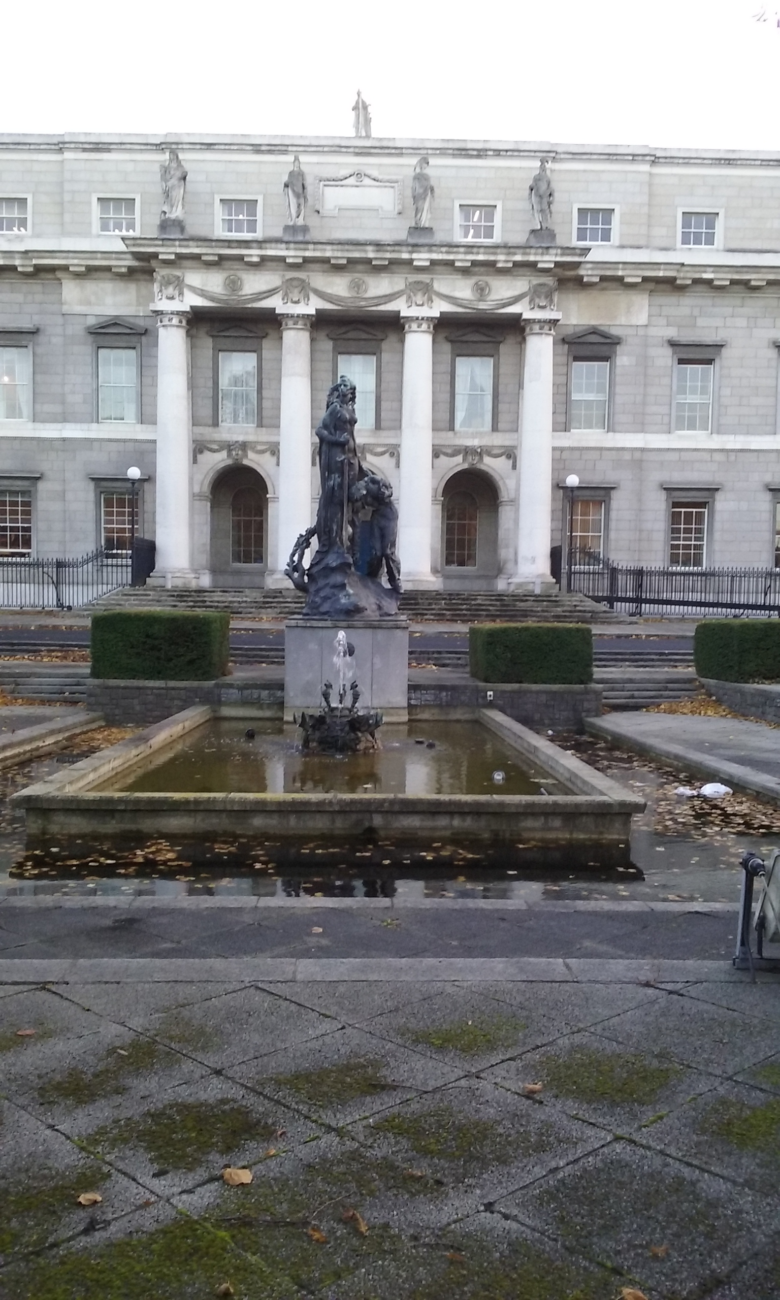 Custom House Memorial Dublin by Yann Goulet 1957